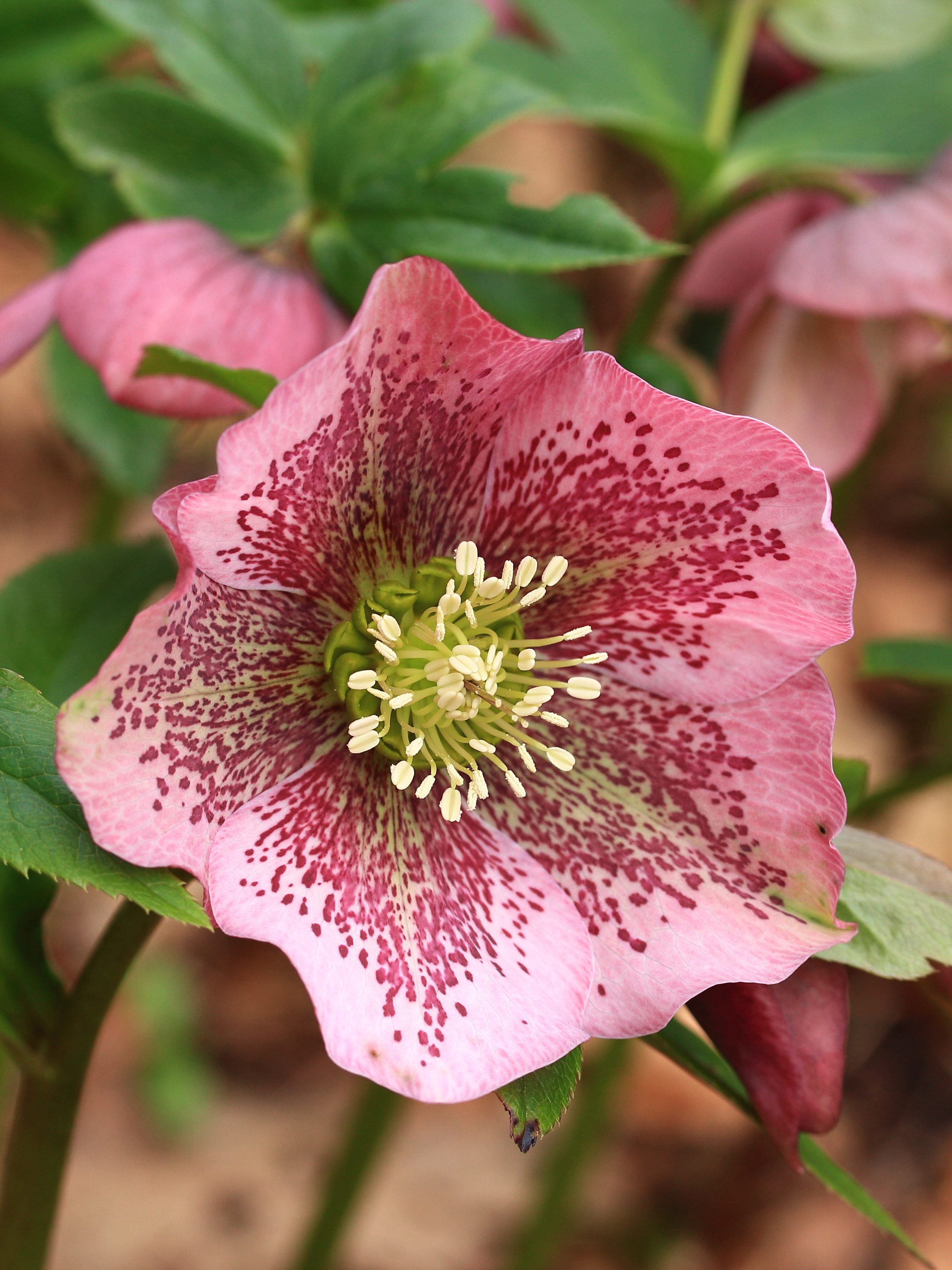 Helleborus orientalis. spring Rose.